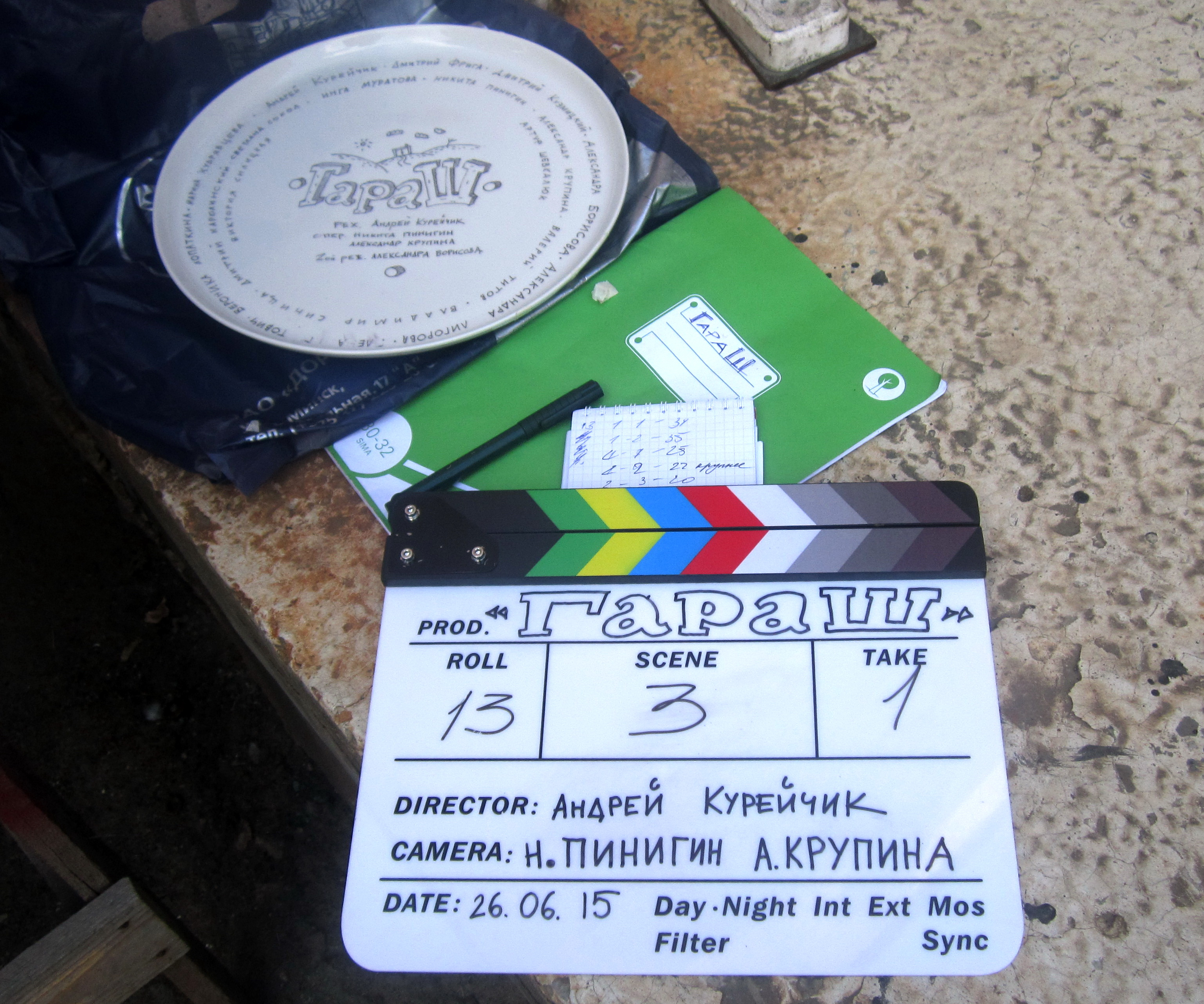 Clapperboard for "GaraSh" movie